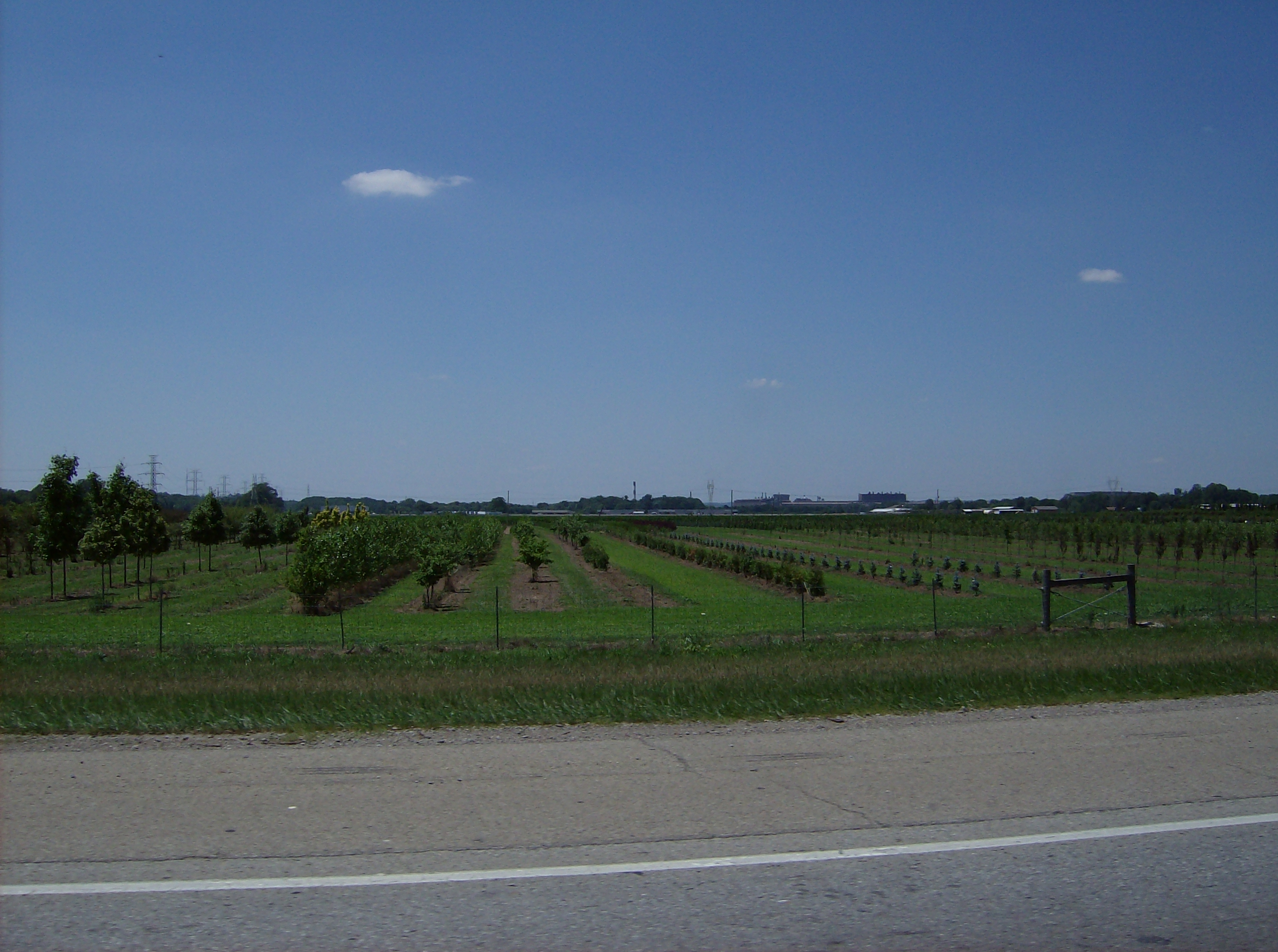 View of an orchard in northwestern Turtlecreek Township, Warren County, Ohio, United States. Picture taken westward from southbound Interstate 75.